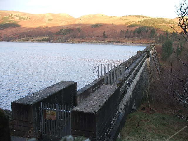 Haweswater Dam.